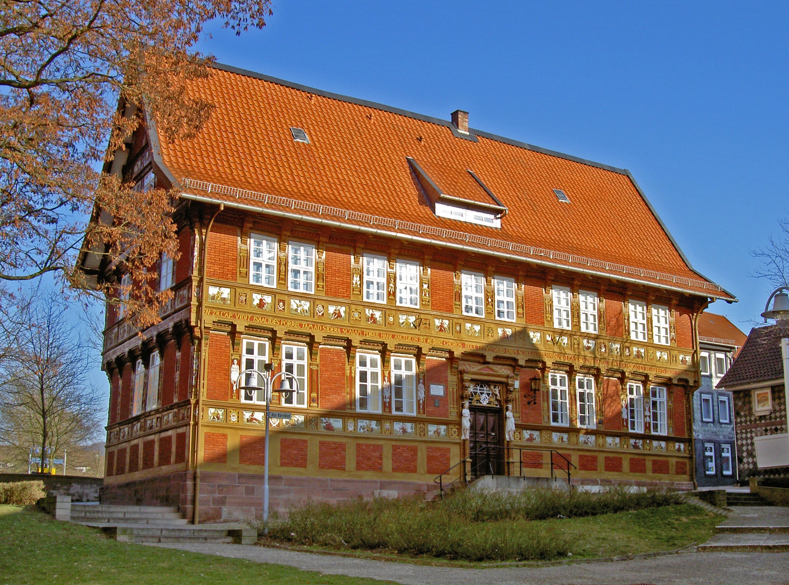 Alfeld (Leine), Grammar school, Museum of local history